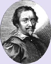 Book 3 of 4-volume painter biographies by Jean-Baptiste Descamps